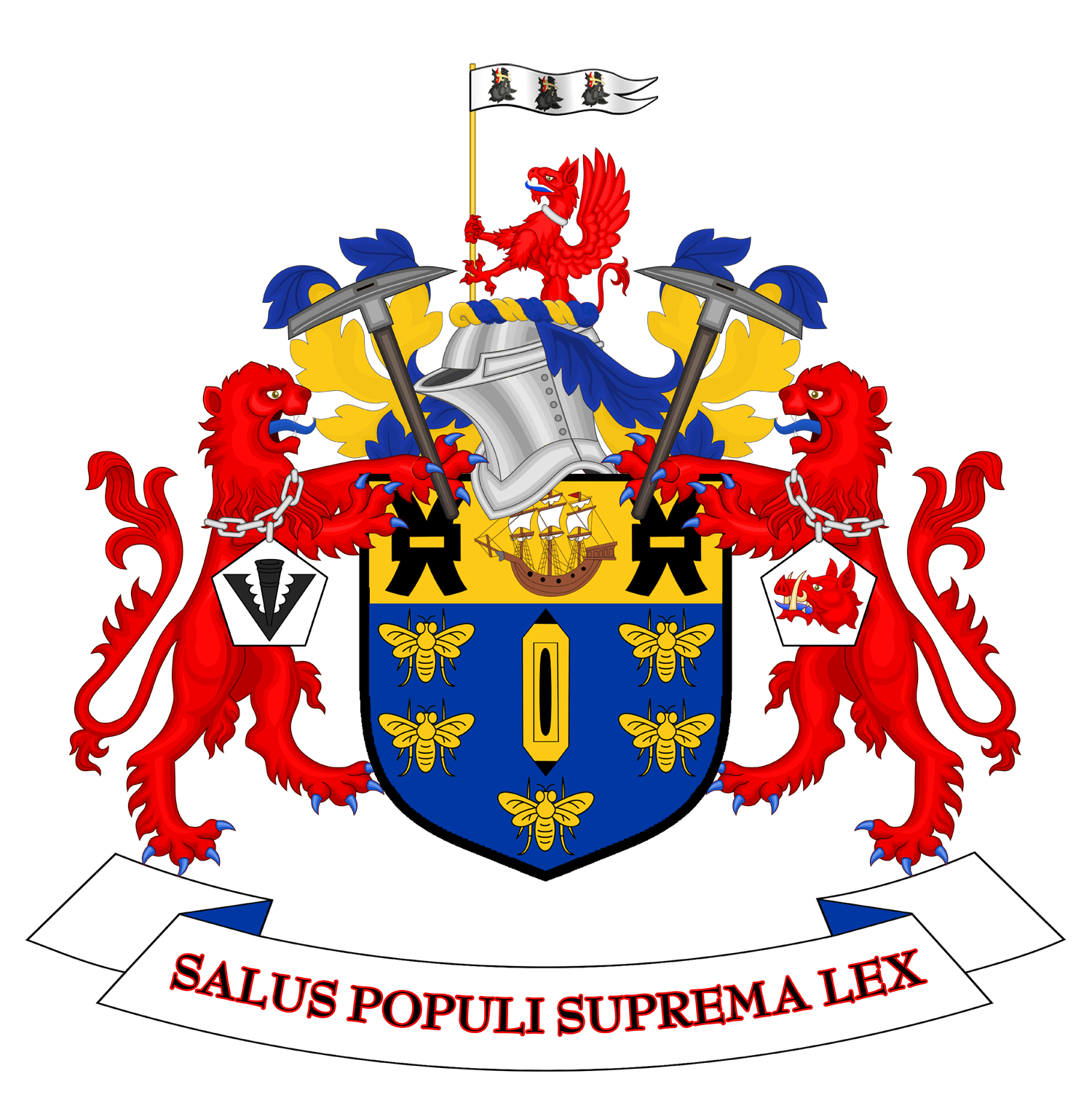 The Coat of arms of Salford City Council, the local government authority for the City of Salford, in Greater Manchester, England. The blazon is:ARMS: Azure a Shuttle erect between five Bees volant two two and one on a Chief Or a three-masted Ship of the 19th century in full sail proper between two Millrinds Sable. CREST: On a Wreath of the Colours a demi Griffin Gules gorged with a Collar of Steel proper supporting a Staff Or flying therefrom a forked Pennon Argent charged with three Boars' Heads erased and erect in Fess Sable langued Gules. SUPPORTERS: On either side a Lion Gules gorged with a Chain of Steel proper pendant therefrom a Pentagon Argent that on the dexter charged with a Pheon Sable that on the sinister with a Boar's Head erased Gules armed Or langued Azure and each holding in the interior forepaw a Miner's Pickaxe proper.